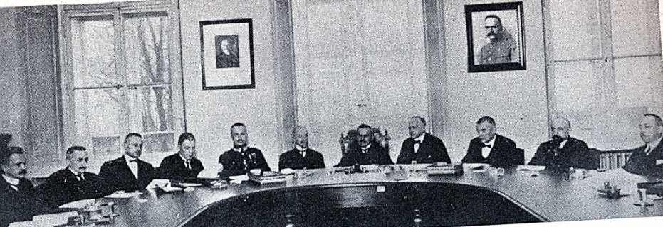 Official governmental photo of Polish Government under Prime Minister Władysław Grabski 1924-1925